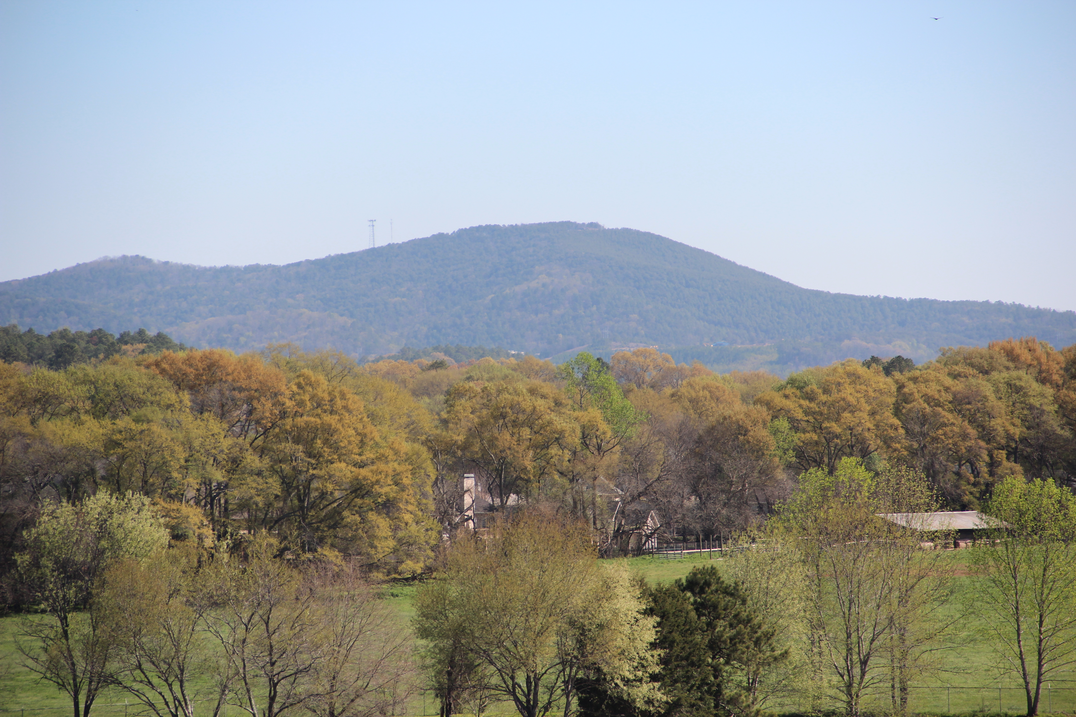 Pine Mountain seen from Mound A, Etowah Mounds